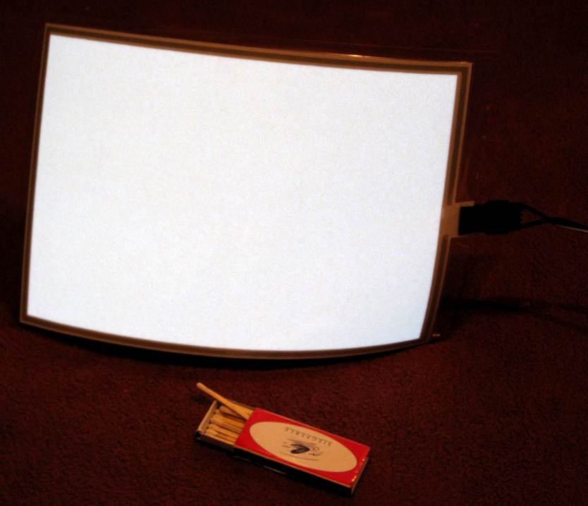 Luminescent foil